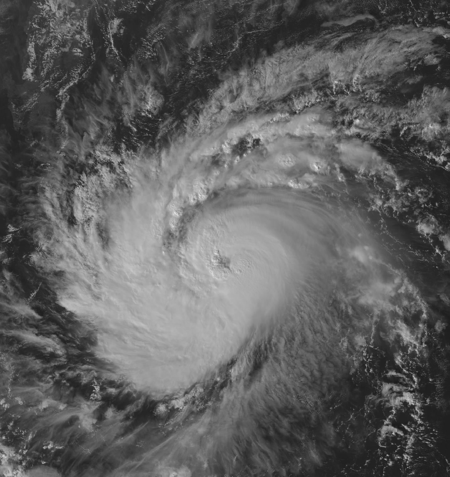 Greyscale imagery of 2019's Christmas Day Typhoon, Phanfone. This image was taken at 06:57 UTC on December 24, when the system acquired a peak intensity of 975 mbar (28.79 inHg). The 1-minute sustained wind speeds reached 90 knots (165 km/h; 105 mph), making the system a category 2 typhoon at landfall.